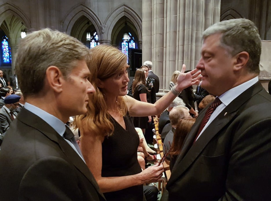 President bid farewell to U.S. Senator John McCain